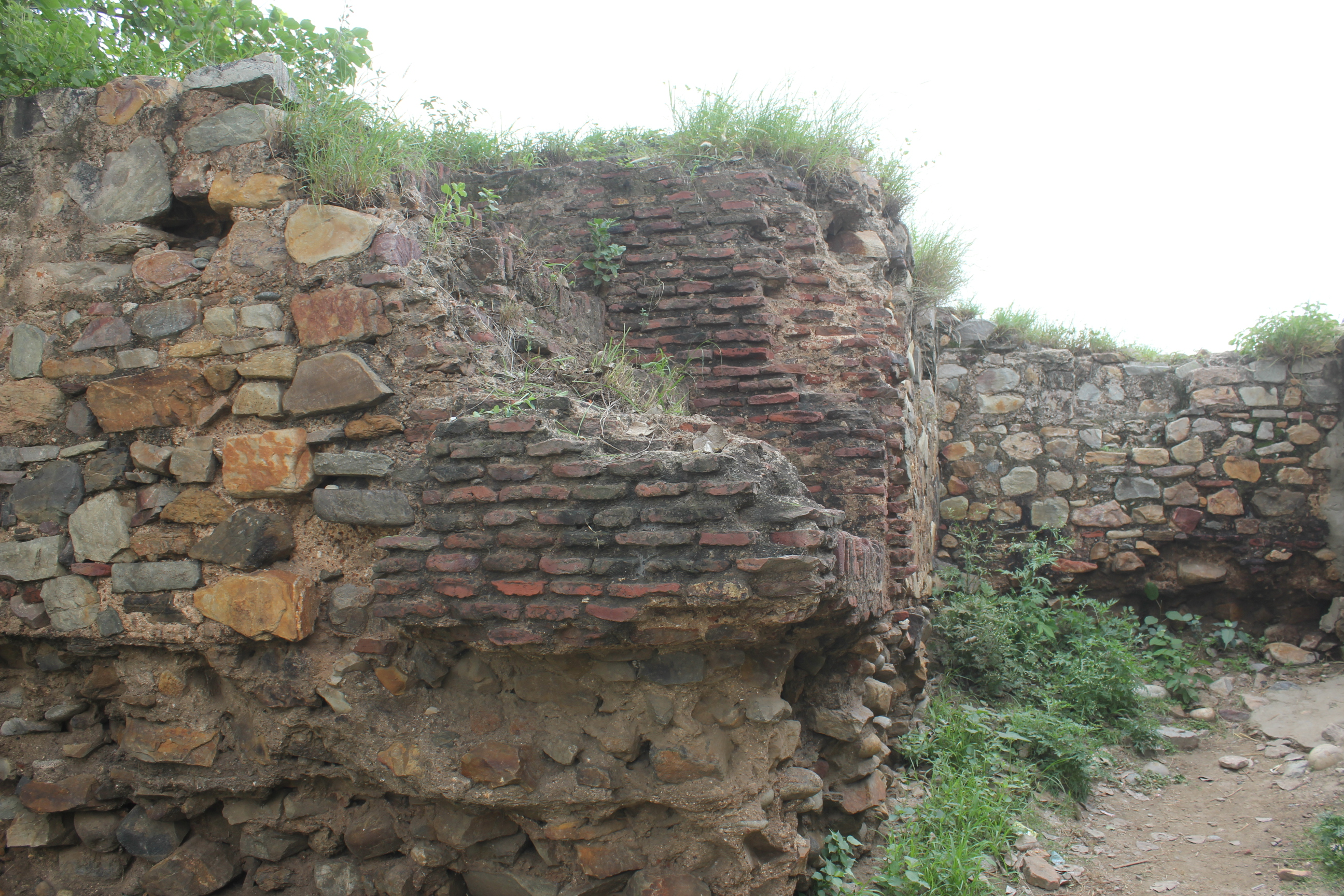 Ruined fort wall This is a photo of a monument in Pakistan identified as the KPK-40